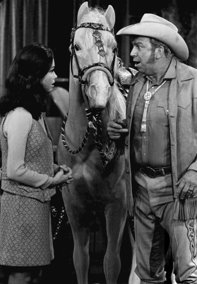 Photo of Mary Tyler Moore as Mary Richards and Slim Pickens as "Wild Jack" Monroe, owner of WJM-TV, from the television program The Mary Tyler Moore Show. When "Wild Jack" fires Lou Grant, Mary visits him to try talking him into giving Mr. Grant his job back.